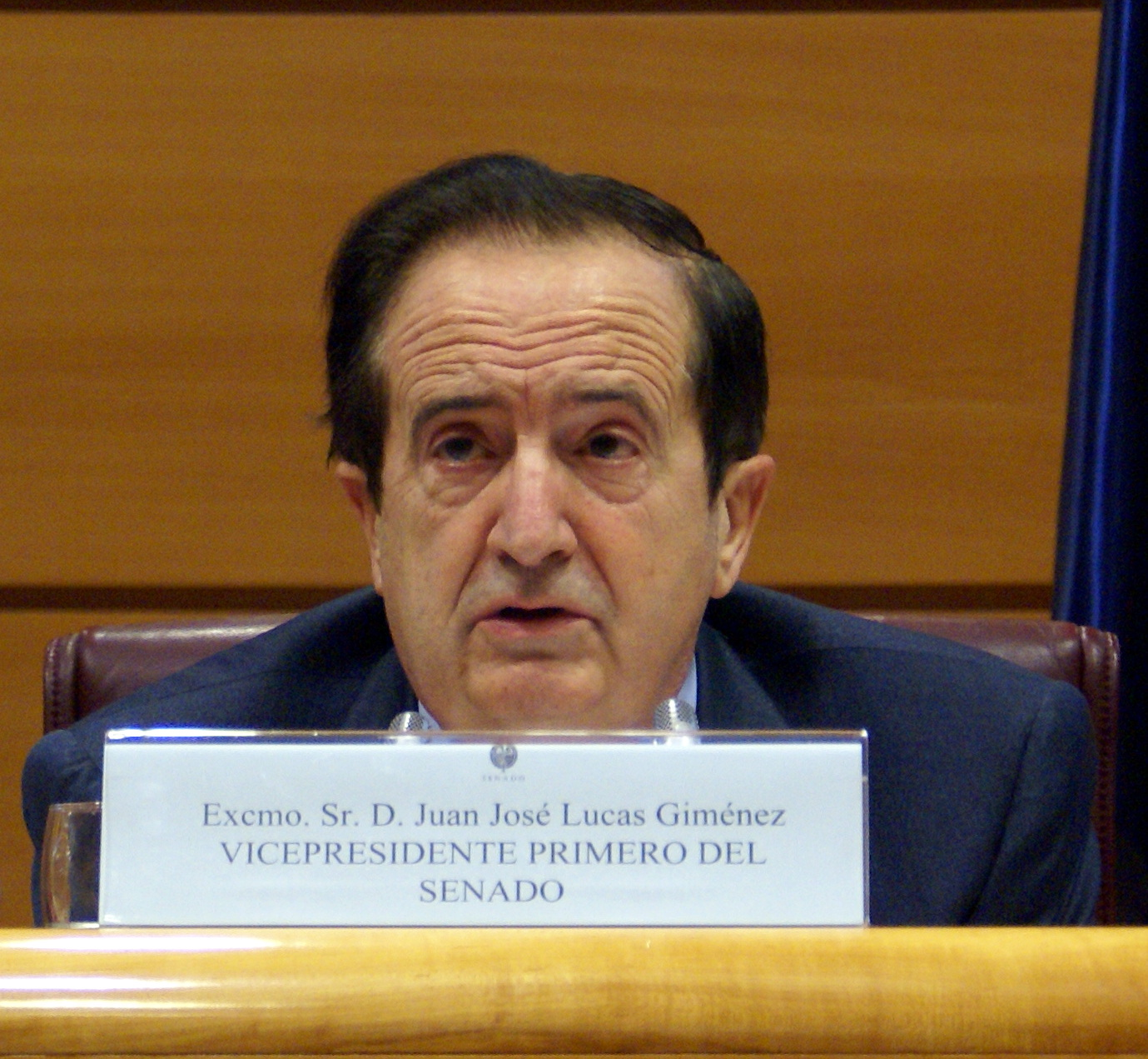 Juan José Lucas, Spanish politician.